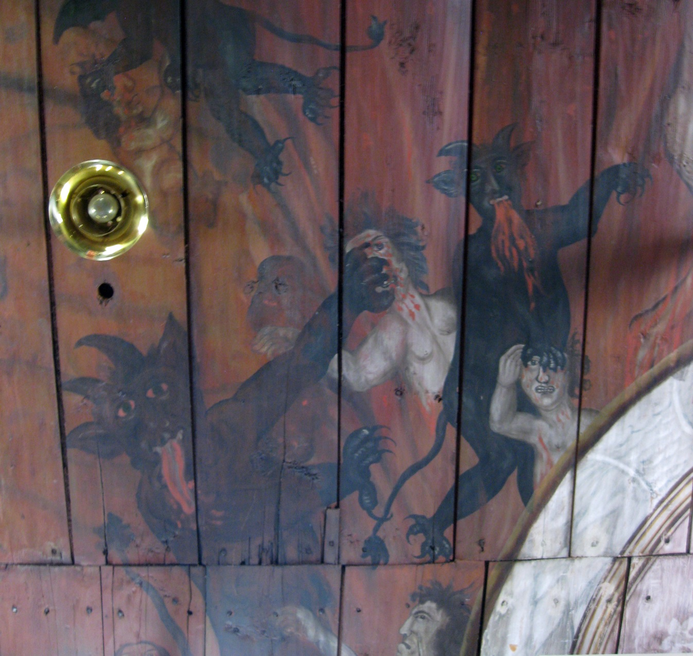 Detail from the painting "The Last Judgment" in the ceiling of the medieval wooden church in Älgarås, the province of Västergötland, Sweden. It was painted by local master Anders Broddesson in the 1750s.